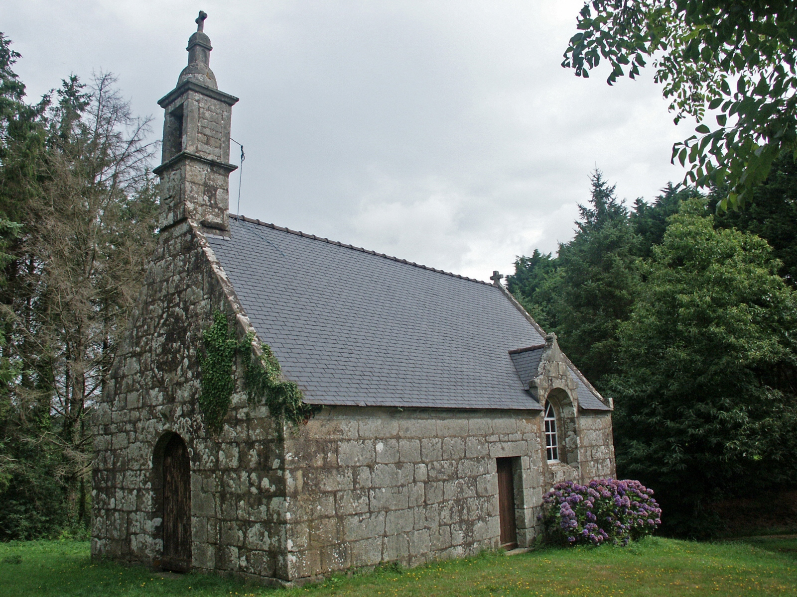 Guengat (Brittany, France); Chapelle Ste-Brigitte.